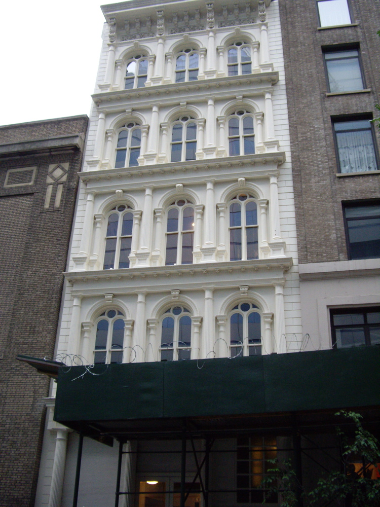 Looking north at en:75 Murray Street, Manhattan, New York, Hopkins Store (1857) NYCLPC designation 1968.